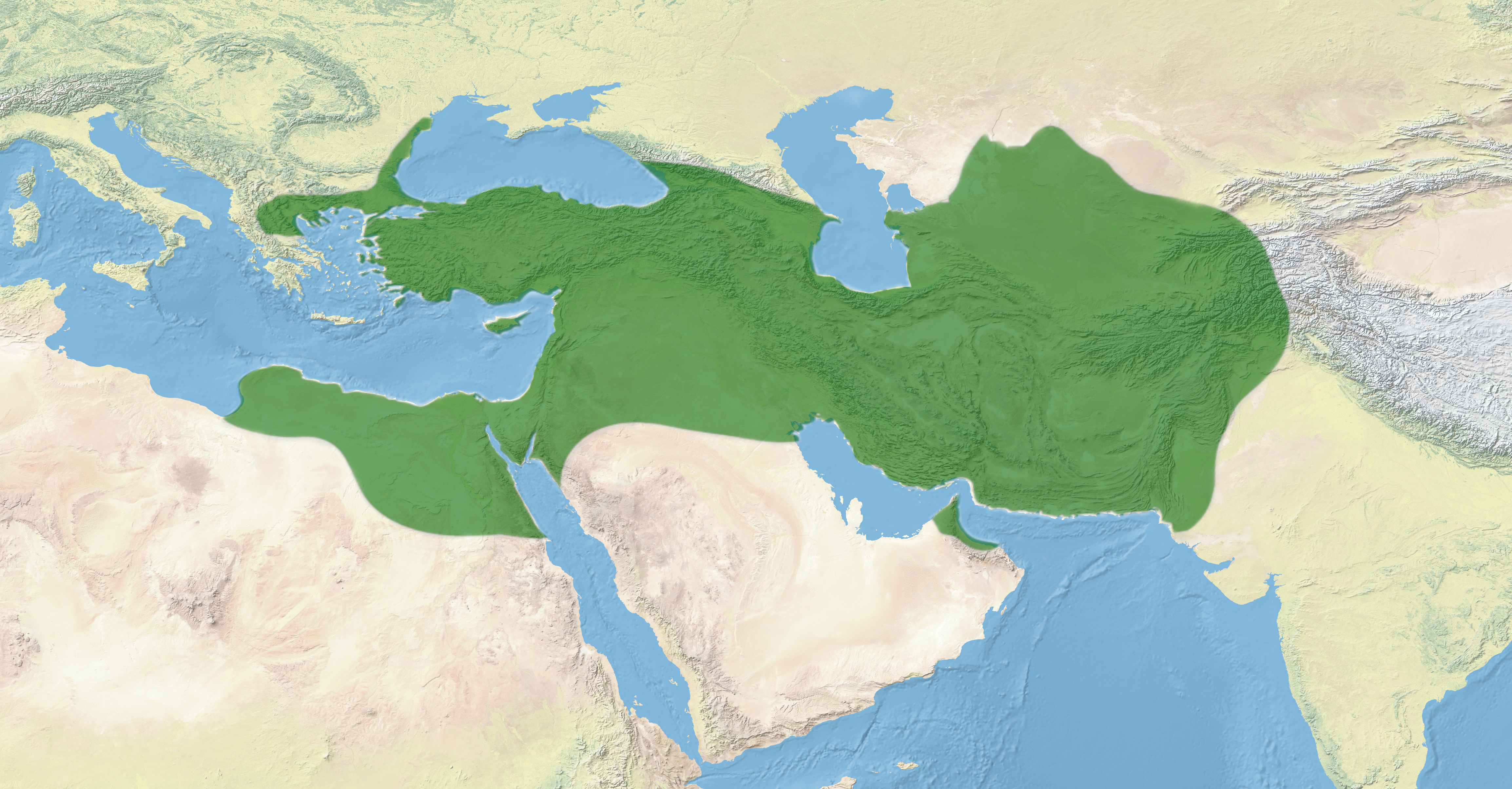 Achaemenid Empire cylindrical projection Sources: Visible online: 2002 Oxford Atlas of World History p.42 (West portion of the Achaemenid Empire) and p.43 (East portion of the Achaemenid Empire).(in English) (2002) Atlas of World History, Oxford University Press, pp. 42-43 ISBN: 9780195219210. Visible online: Philip's Atlas of World History (1999) The Times Atlas of World History, p.79 (1989)(in English) (1989) The Times Atlas of World History, Times Books, p. 79 ISBN: 9780723003041.